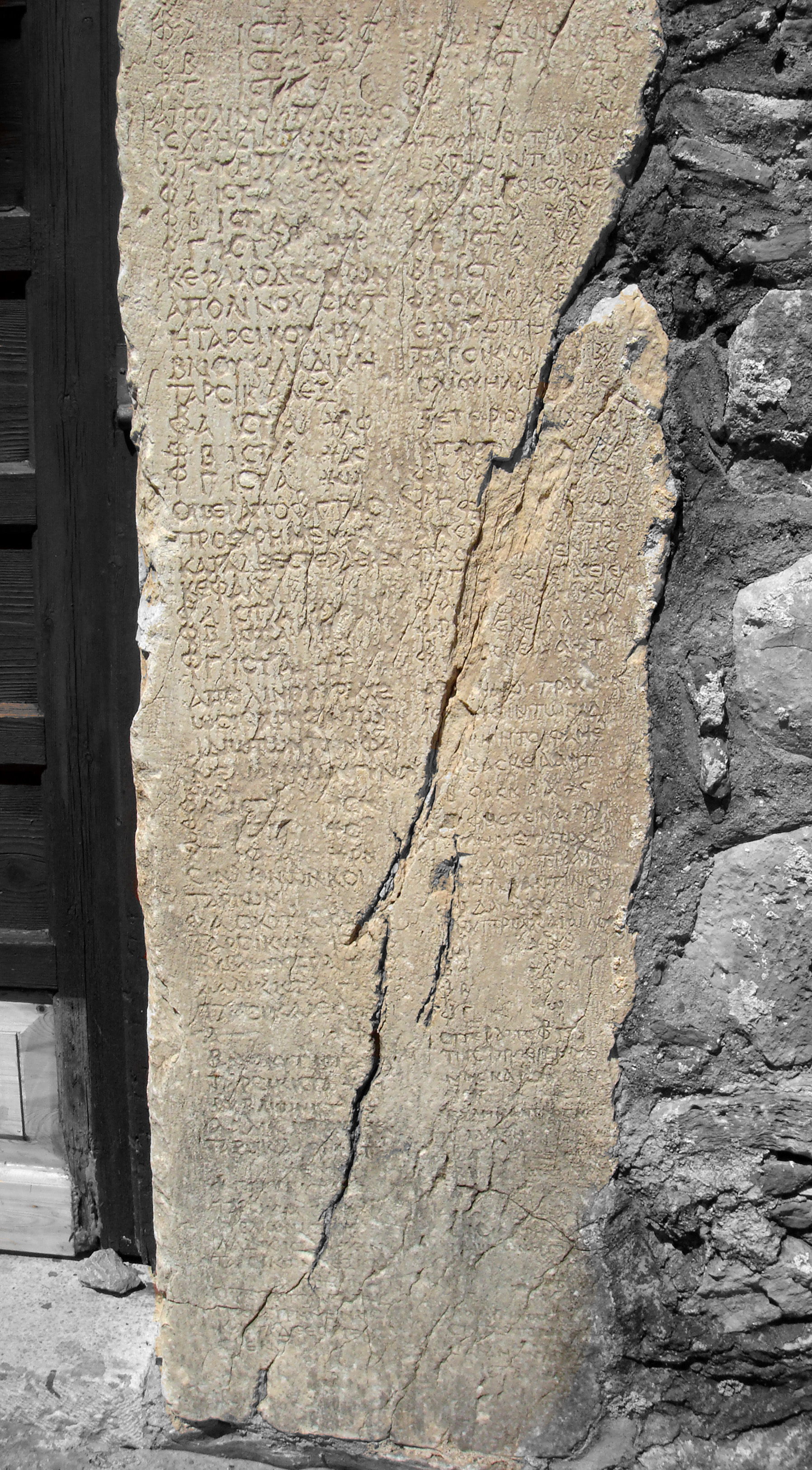 Diocletian's prices edict, one of 4 remaining fragments embedded in the medieval church of St. John Chrysostomos in Geraki, Greece. The background colour has been removed leaving only the fragment in colour.